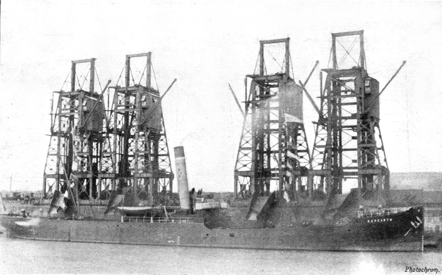 Taff Vale Railway Loading a Steamer with a Cargo of Coal at Penarth Dock